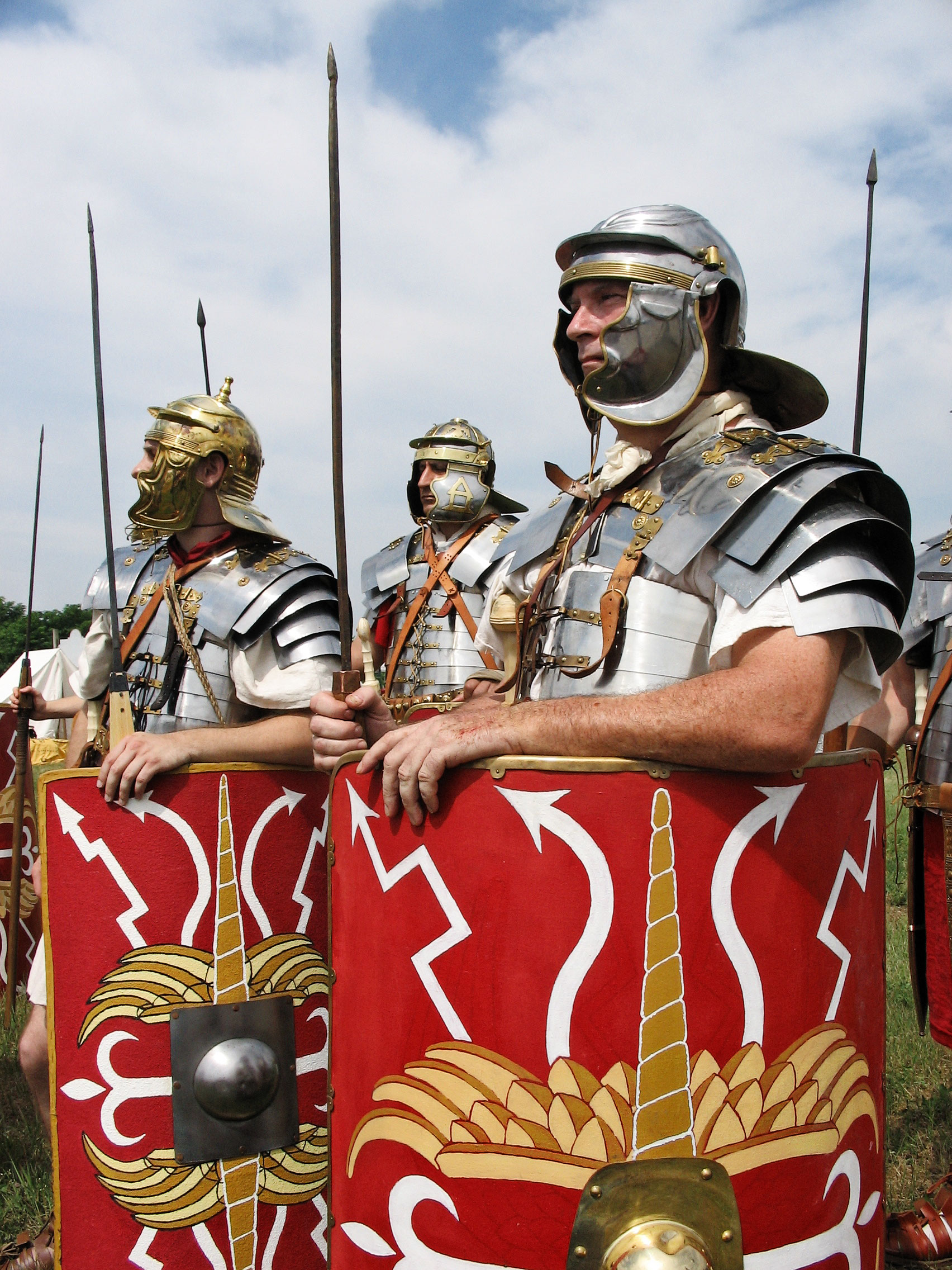 Legio III Cyrenaica of New England (United States) in a 1st century A.D. portrayal of a legion.